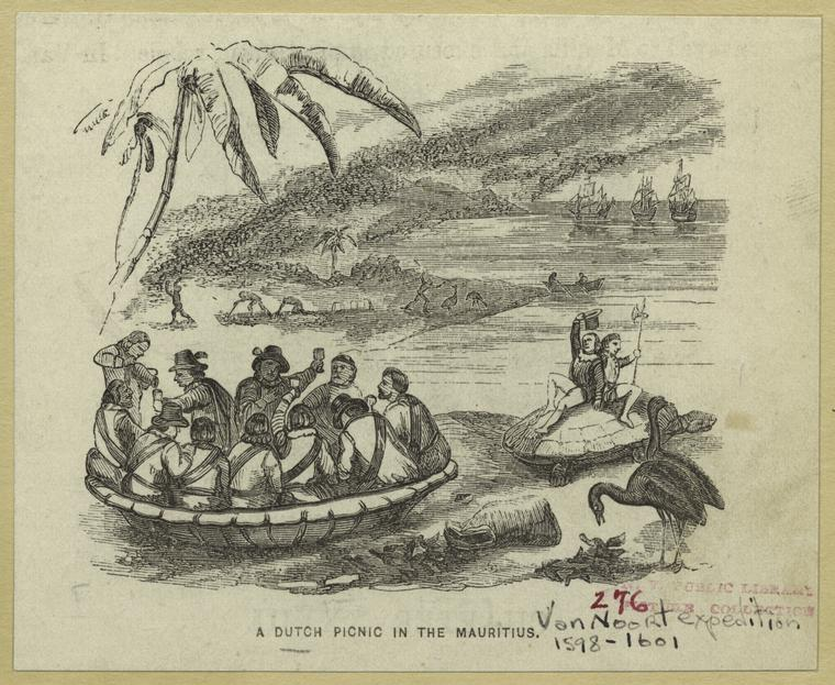 A Dutch picnic in the Mauritius.